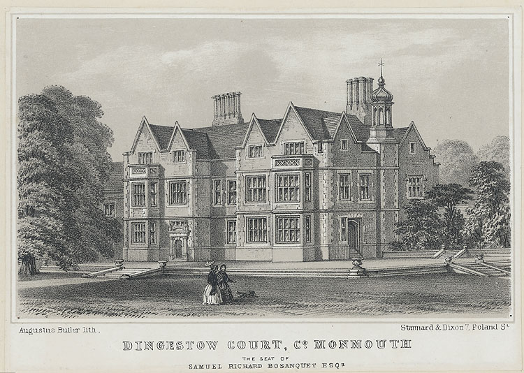 1 print : lithograph (tinted), b&w ; image size 100 x 166 mm., paper size 122 x 172 mm.